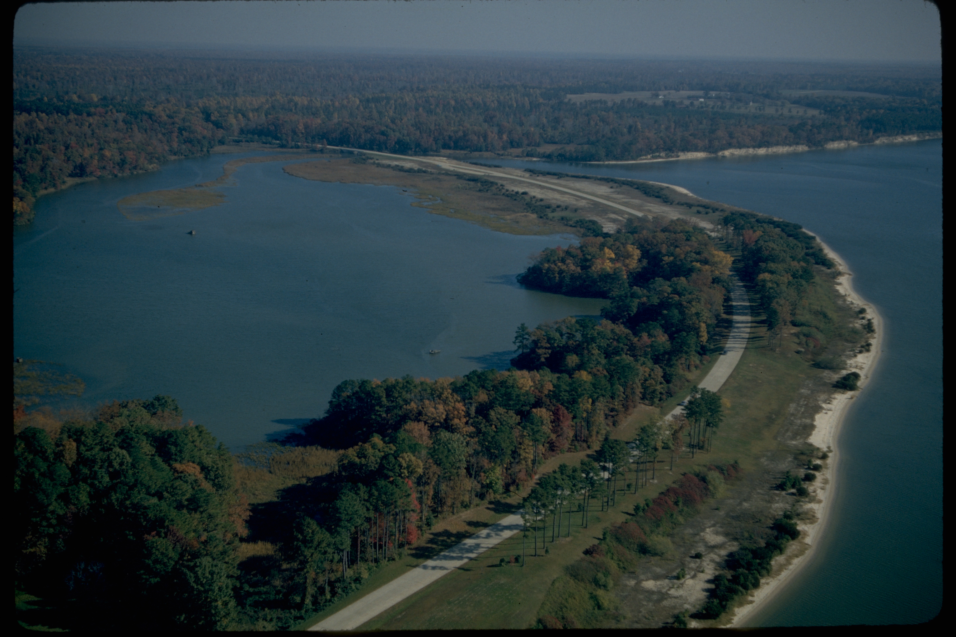 Location Colonial National Historical Park Description It began on the swampy marshes of Jamestown in 1607. It ended on the battle scarred landscape of Yorktown in 1781. It was one hundred and seventy-four years of hope, frustration, adventure, discovery, growth, and development that saw a lonely settlement of 104 men and boys grow into a nation of 13 colonies of 3 million people, of many races and many beliefs. Jamestown and Yorktown mark the beginning and end of English Colonial America.